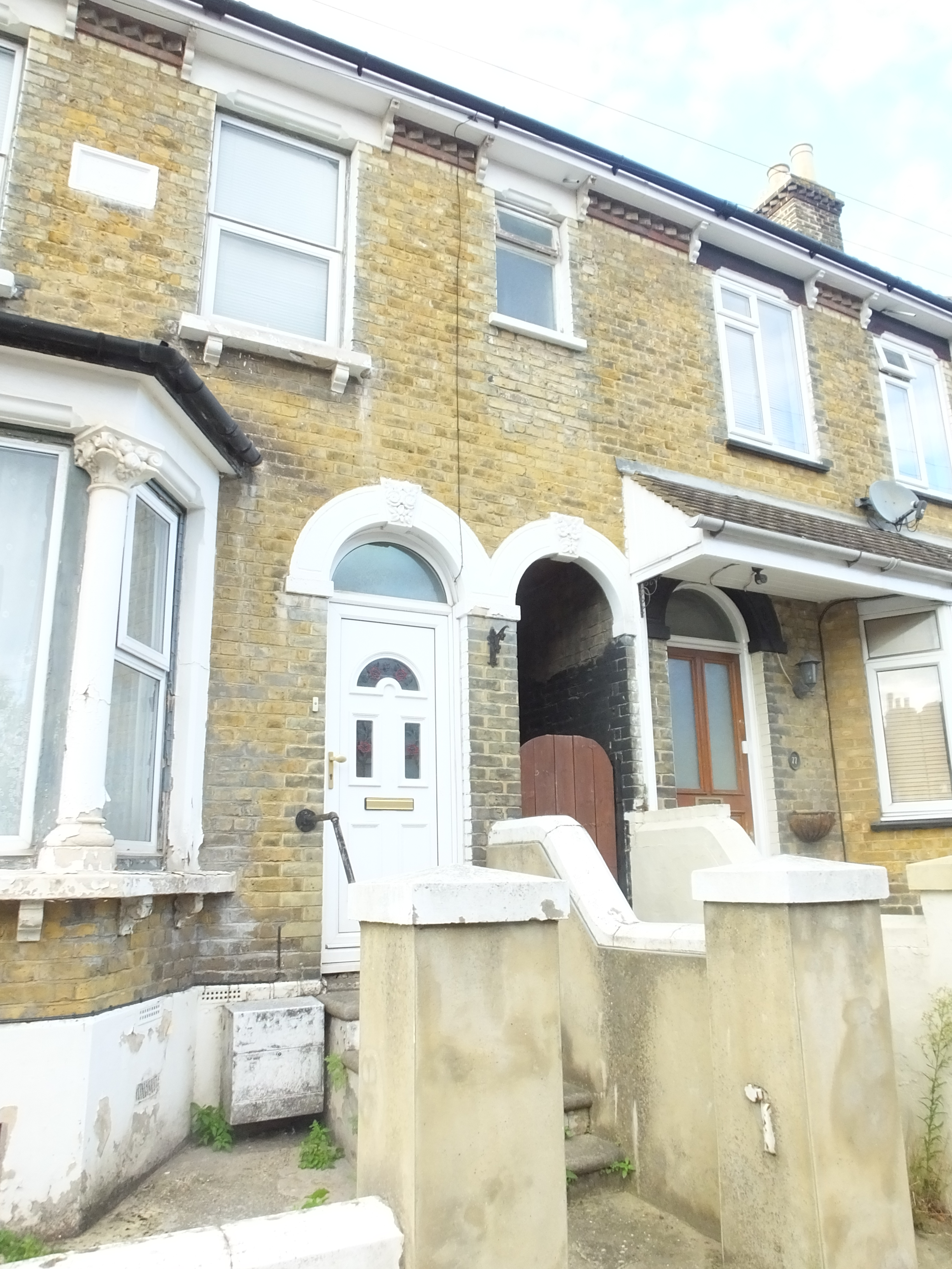 Byelaw terraced houses in Kent. Handed houses separated by a passage/ginnel/alley. The right has been renovated and has a new roof over the bay window and a smaller window inserted when the bedroom was converted to a bathroom- both have lost their original windows and guttering.